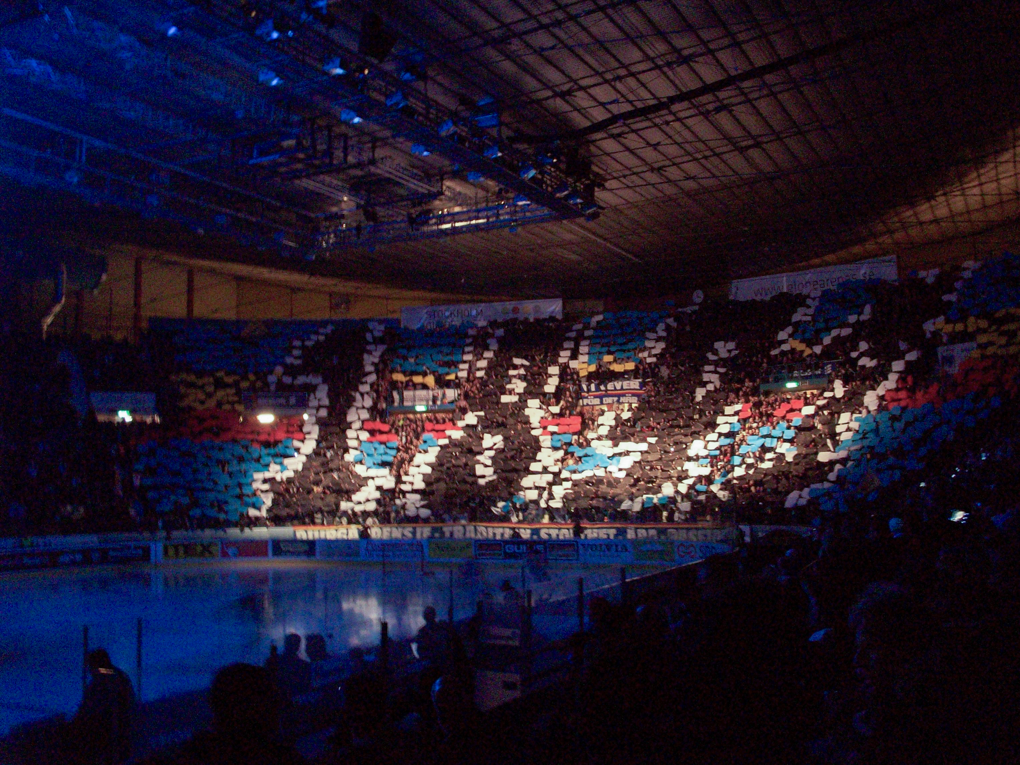 Djurgården's supporters celebrating the founding year of the club, 1891 during the Swedish Elite League ice hockey game between Djurgårdens IF and Färjestads BK (3-2) inside the Stockholm Globe Arena.